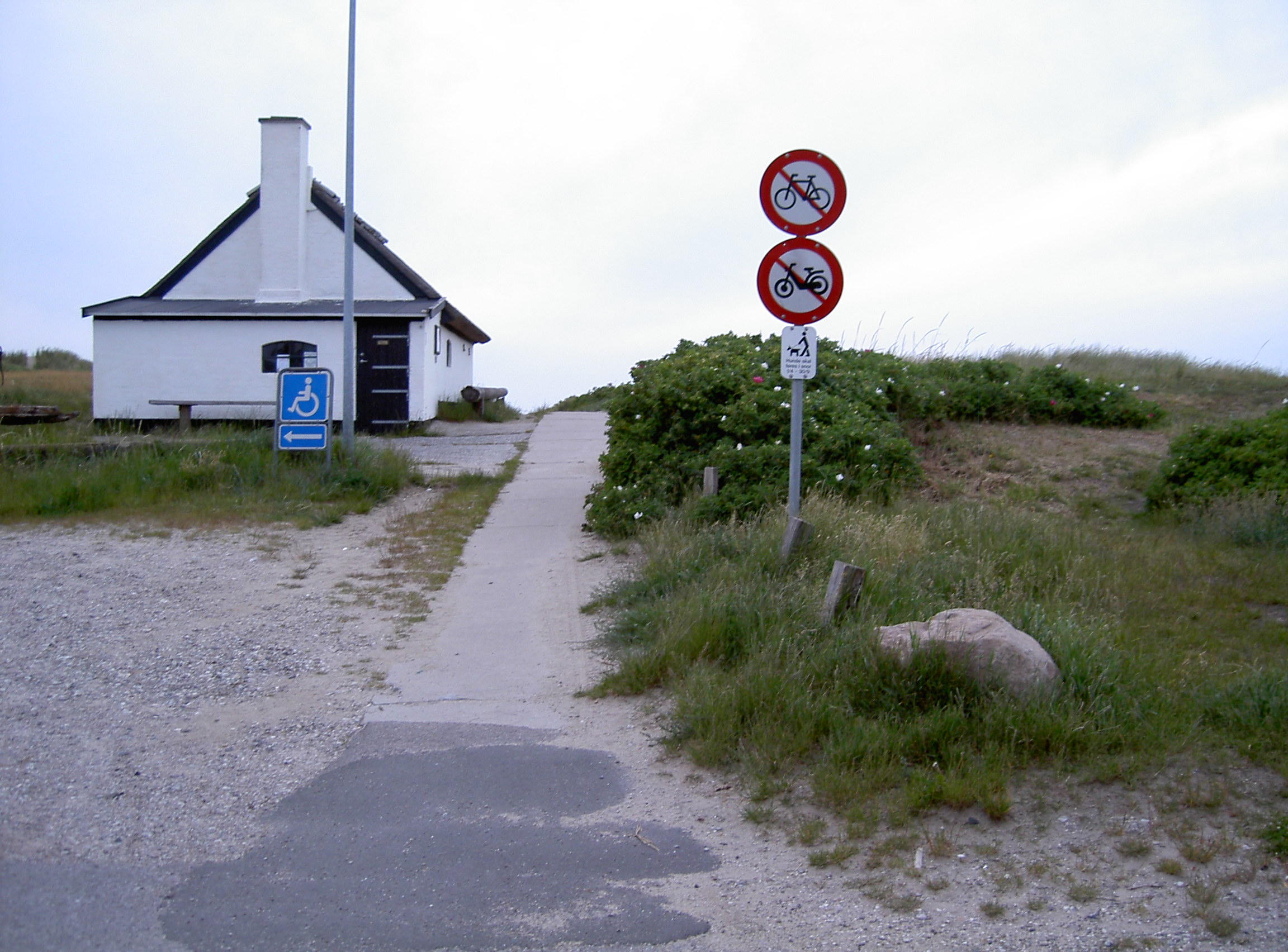 "Ishuset" in Liseleje, Denmark. Article: Ishuset i Liseleje